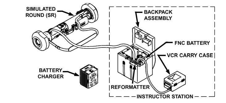 Javelin Field Tactical Trainer